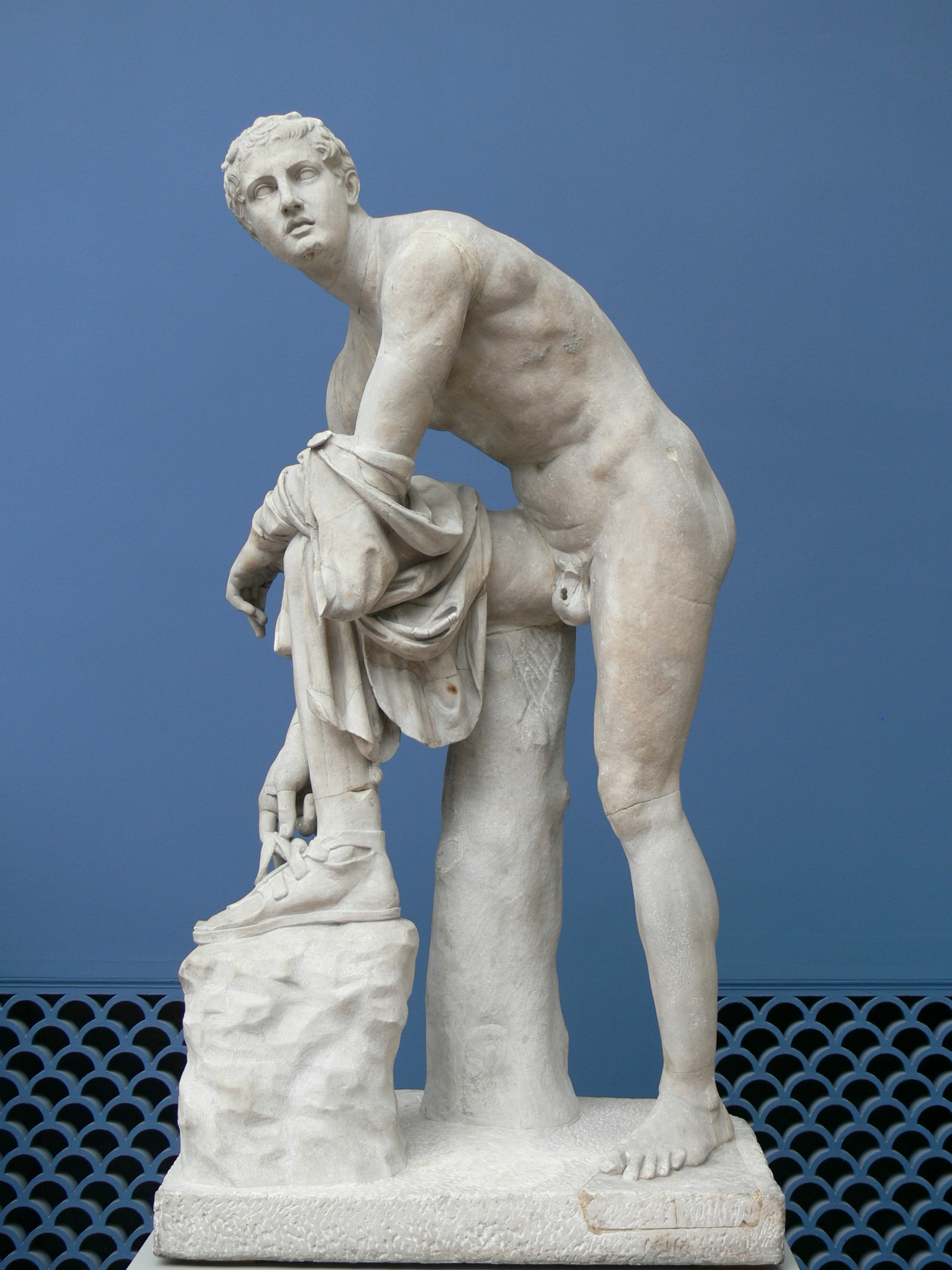 Ny Carlsberg Glyptothek, Copenhagen. Statue of Hermes tying his winged sandals as he raises his head and listens to Zeus' command. Roman copy (2nd century) of a Greek bronze statue made by Lysippos around 330 B.C. Originally situated in the Villa Hadriana in Tivoli it was restored during the 18th century by Bartolomeo Cavaceppi.